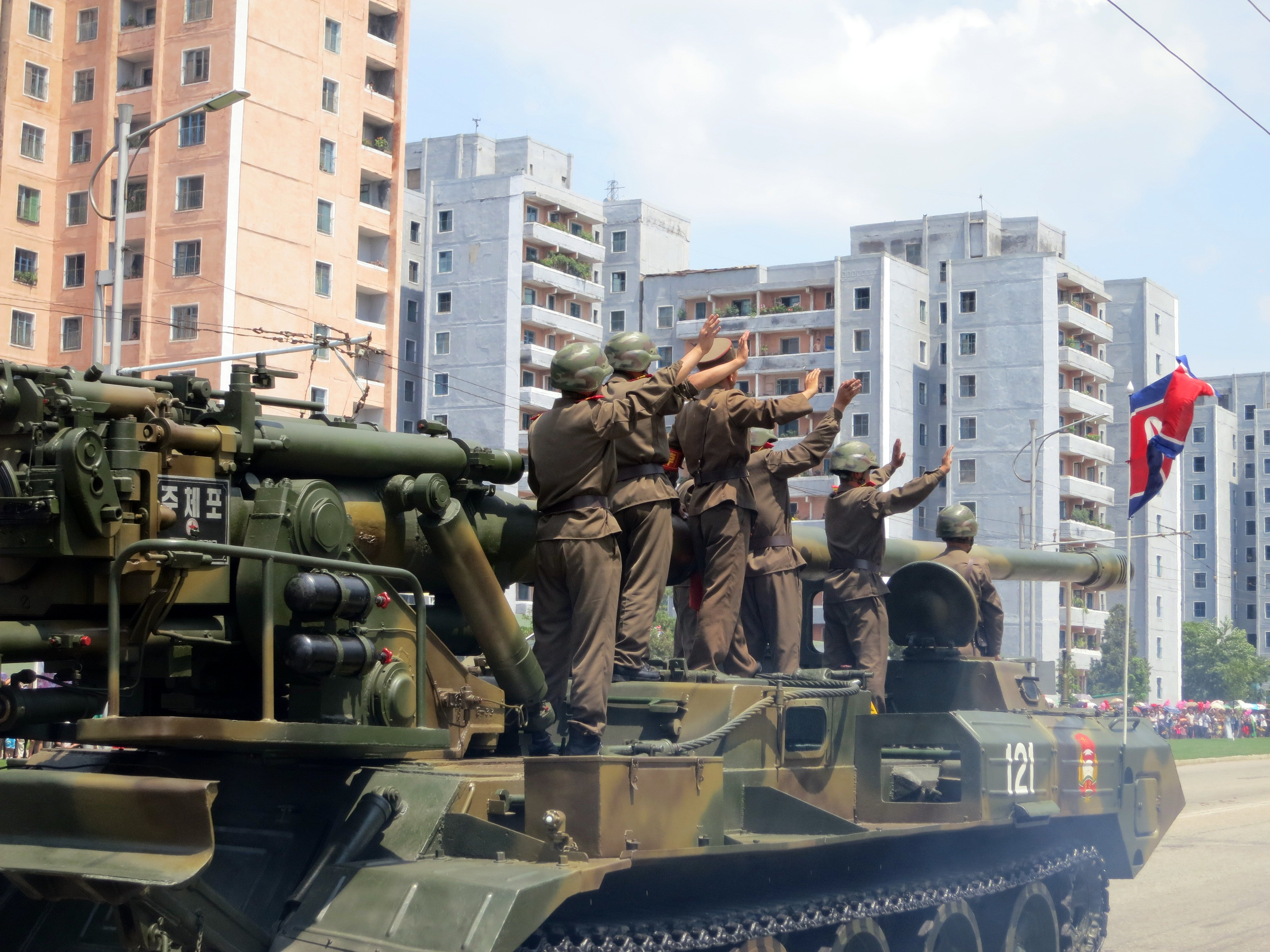 170mm M1989 Koksan - North Korea Victory Day-2013